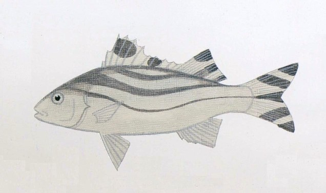 Terapon_jarbua; tempera and pencil on paper